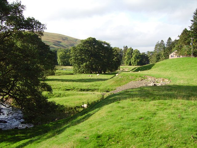 Kingledoors. Parkland like fields between the farm and the main Moffat - Edinburgh road.